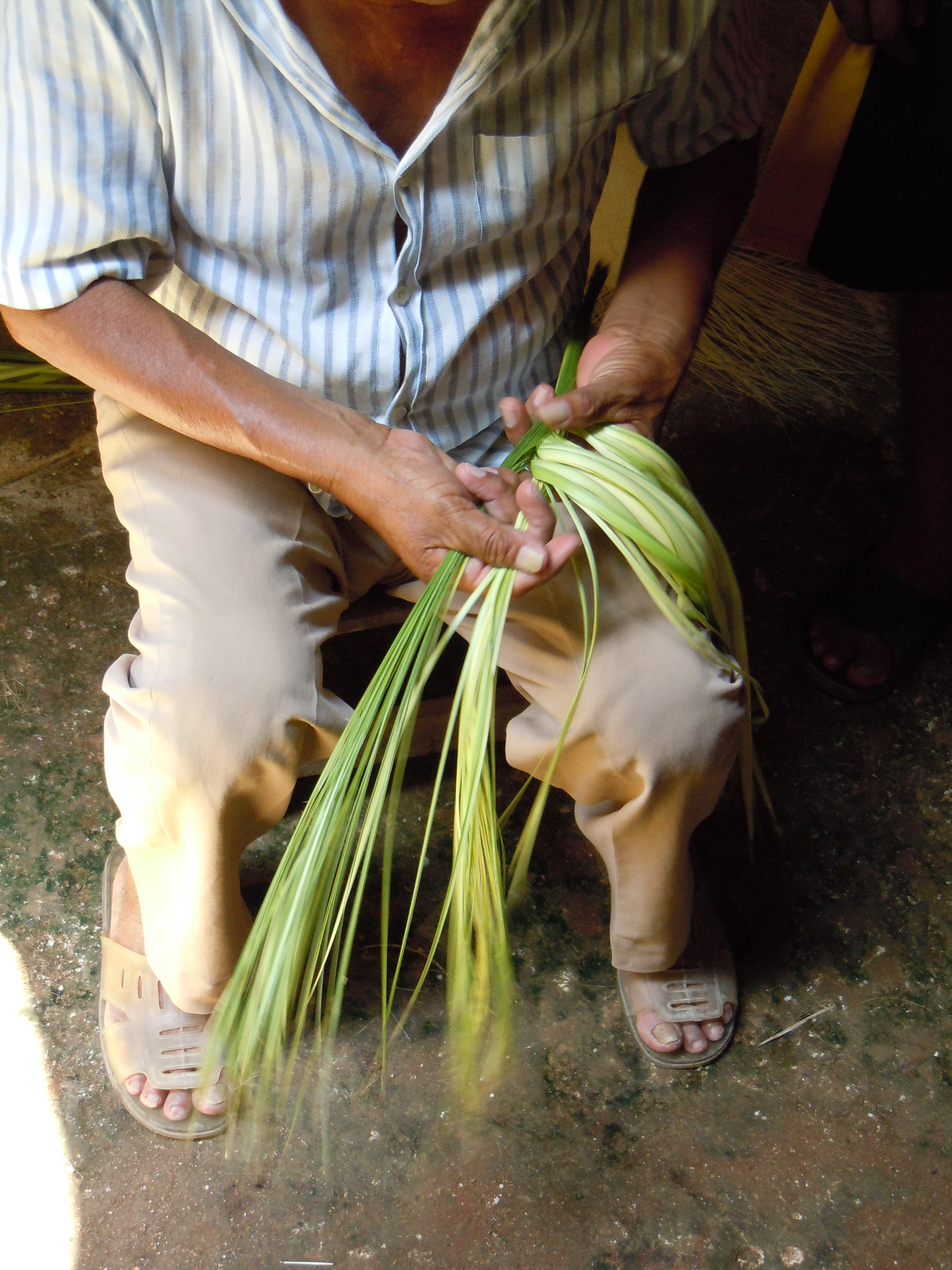 Preparing of palmleaf for weaving a panama hat